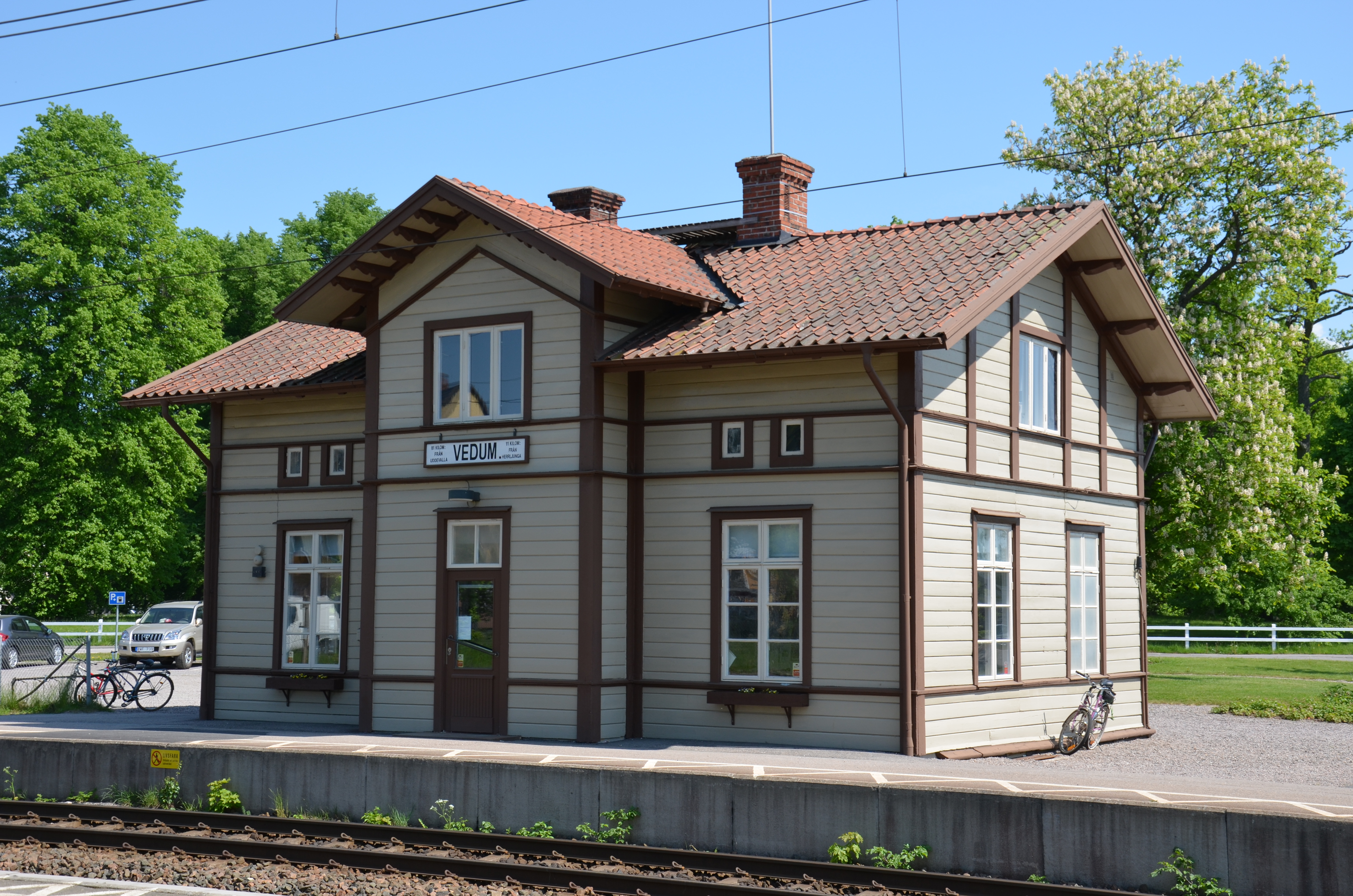 Vedum railway station, Sweden